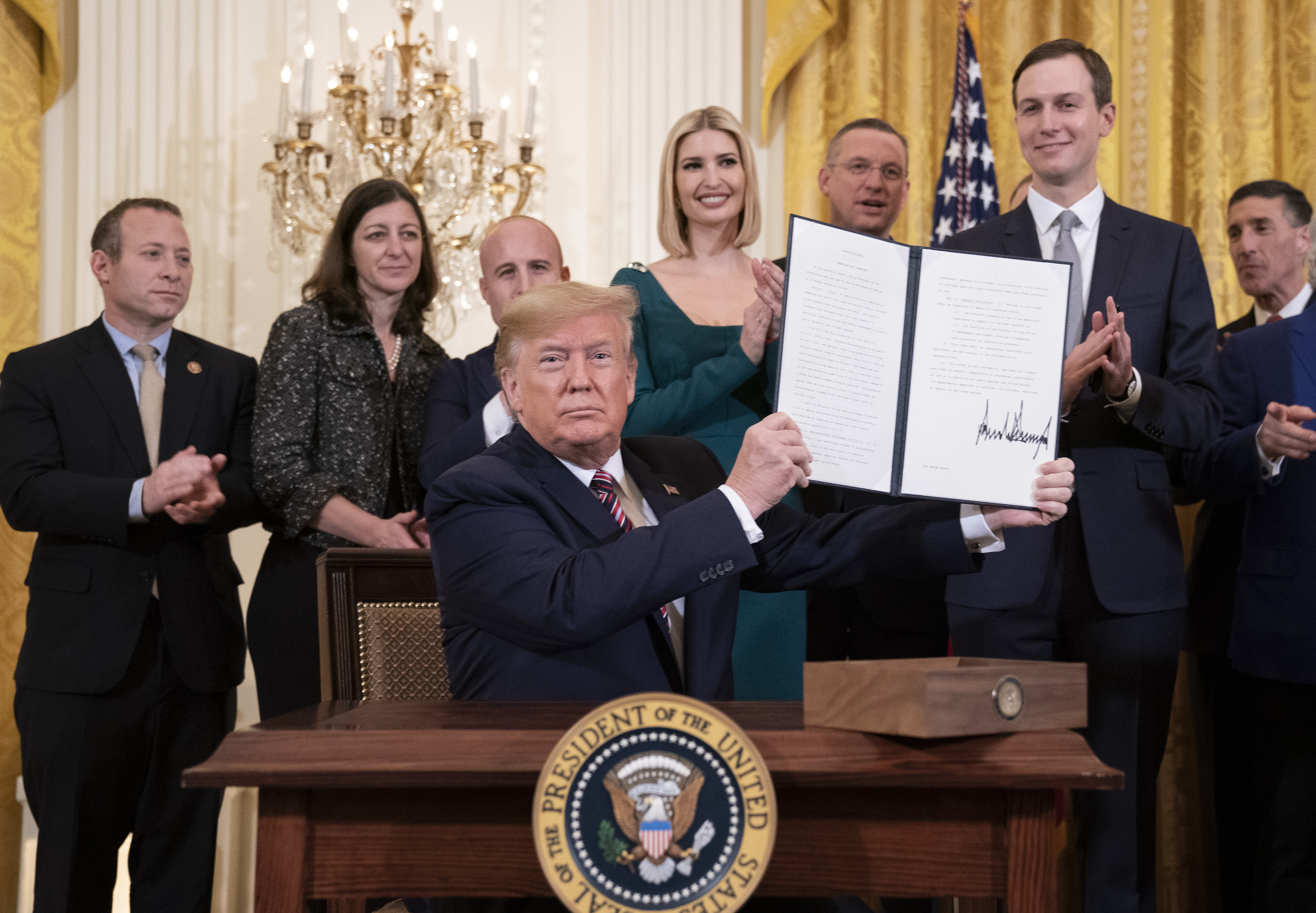 President Donald J. Trump displays his signature on an Executive Order committing his administration to combating the rise of anti-Semitism everywhere and anywhere it appears, Wednesday, Dec. 11, 2019, during an afternoon Hanukkah Reception in the East Room of the White House. (Official White House Photo by Joyce N. Boghosian)